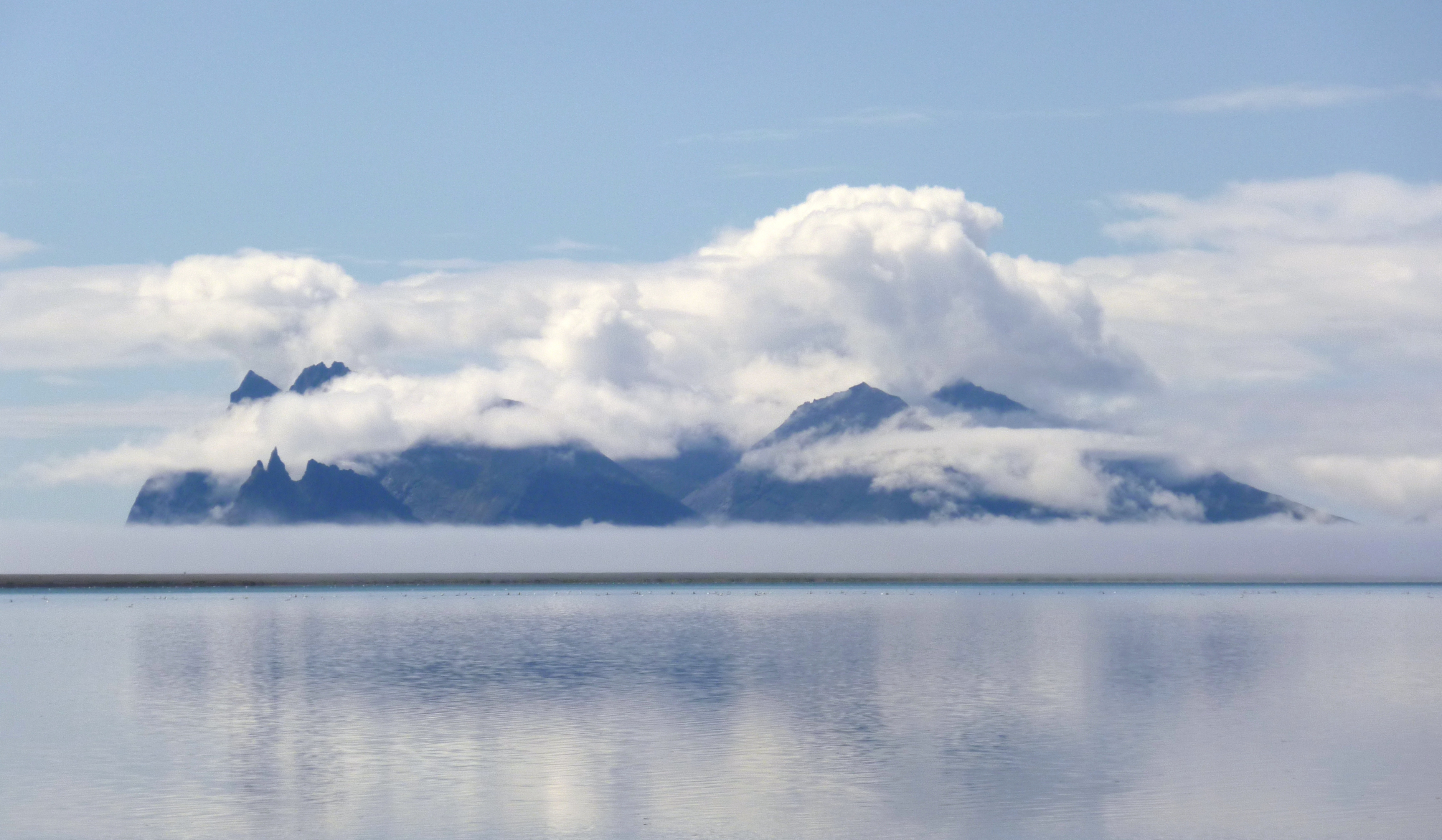 Scene with Cape Vestrahorn, seen from the foot of the Vikurfjall mountain, on the Ring Road 1, in iceland.